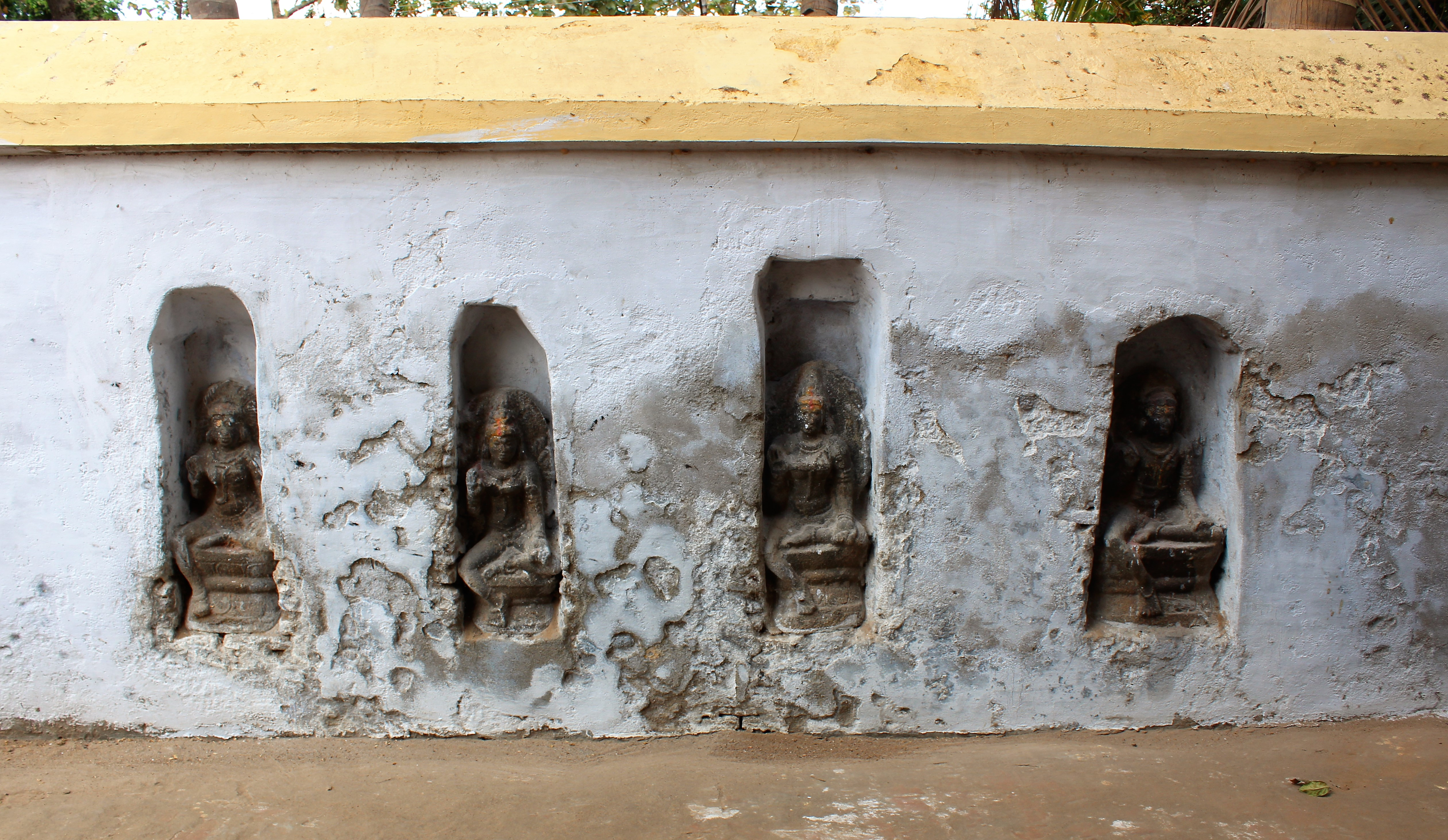 Neyyadiyappar temple Thillaistanam